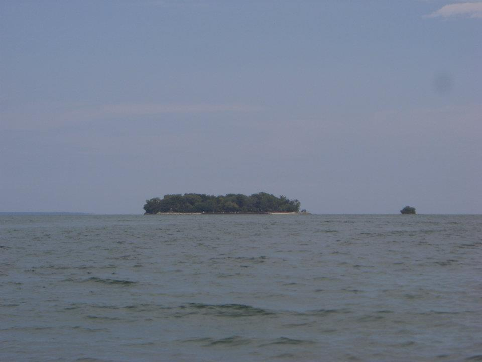 Photograph of Ballast and Lost Ballast Islands taken from Middle Bass Island. Other information Cropped from original.